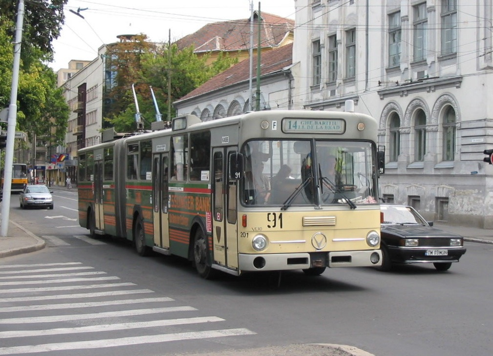 Timişoara 91, a 1983 Vetter 16SO trolleybus (with a Mercedes-Benz chassis), was ex-Esslingen 201, acquired secondhand in 2000. It is shown in service on route 14, still wearing its Esslingen paint scheme; it was later repainted into Timişoara livery. It was retired/withdrawn in Timişoara in 2007 or 2008.